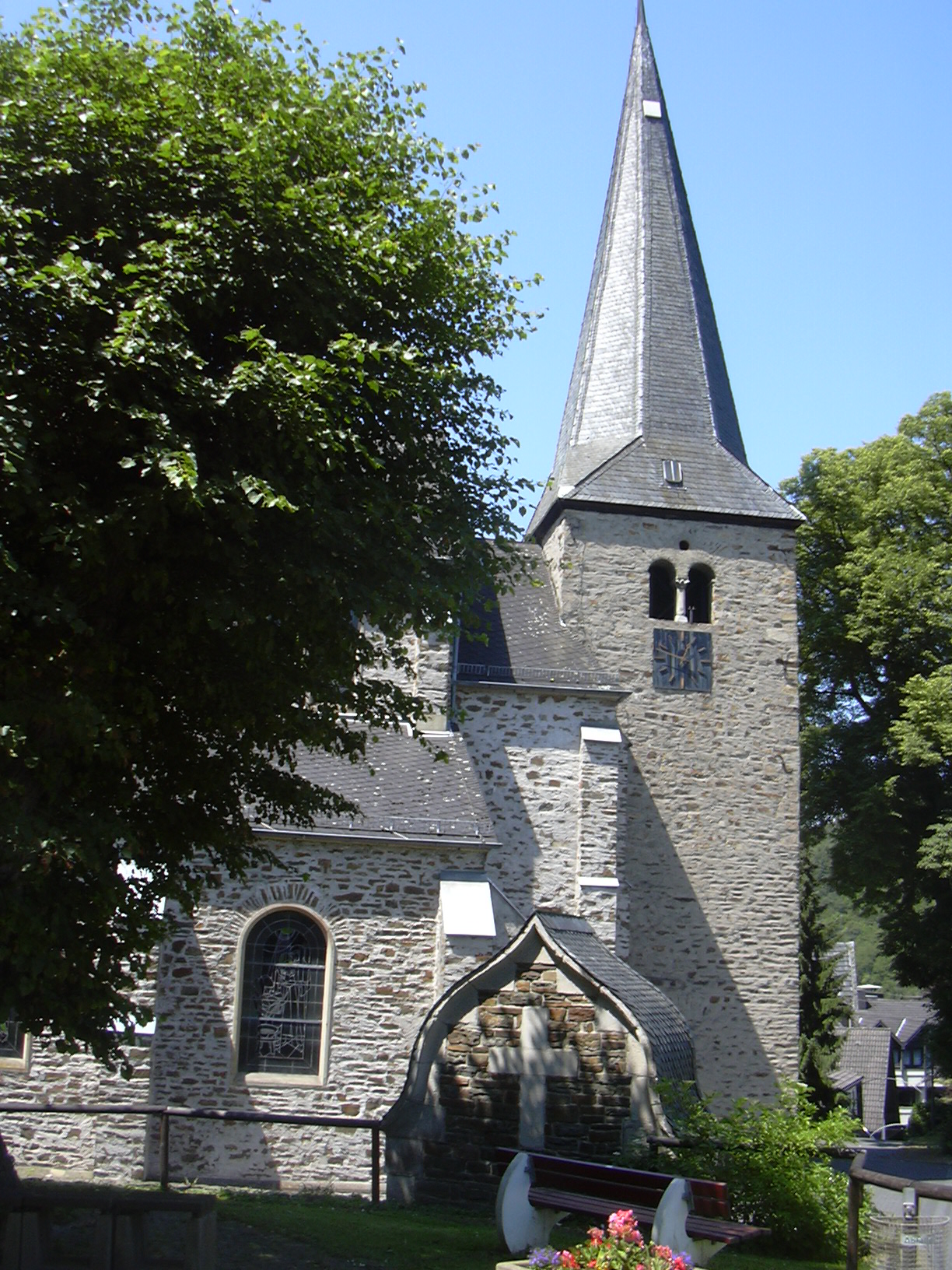 Church "Maria Himmelfahrt", Waldbreitbach, Westerwald/Germany